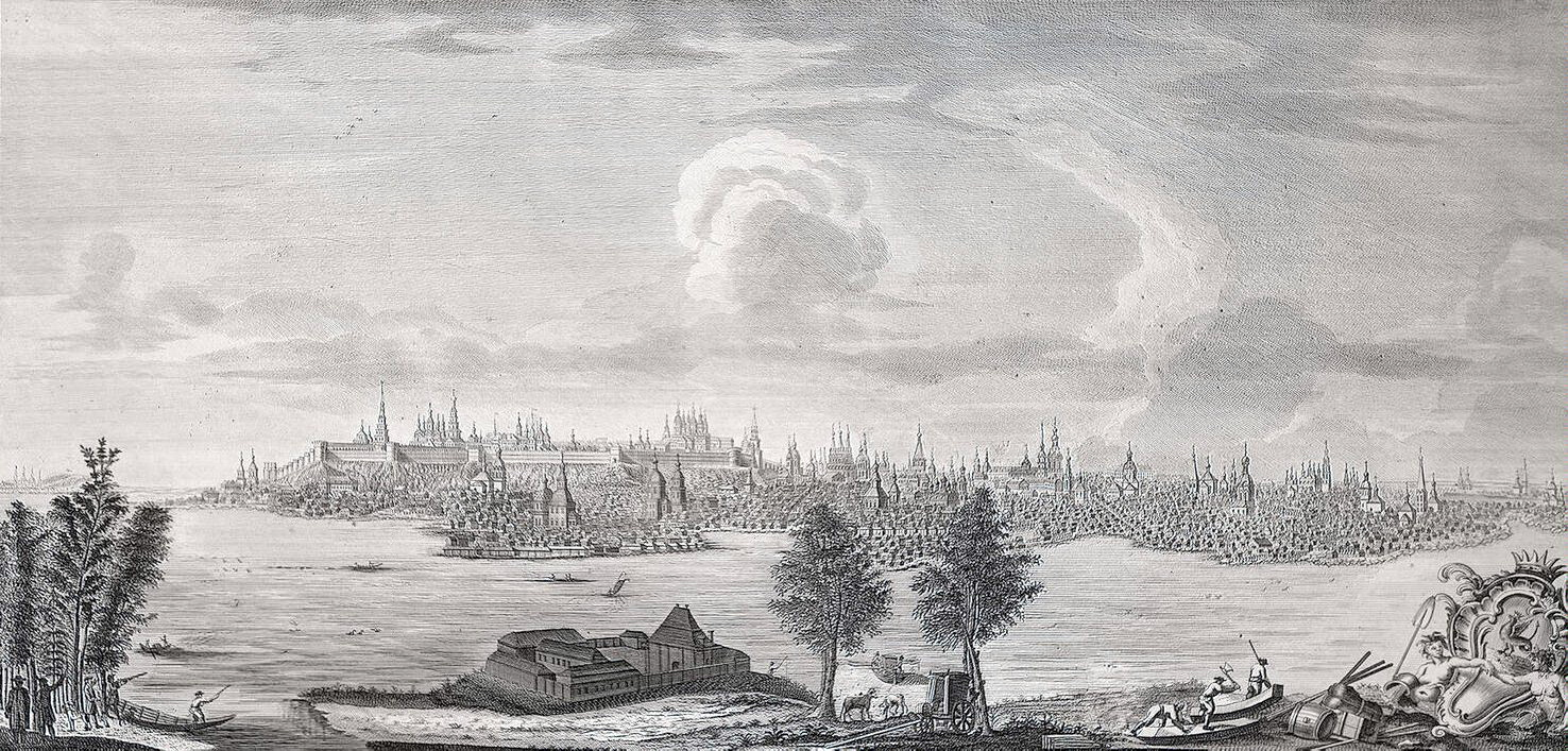 engraving of Kazan in 18 cnt by Chelnakov Nikita Feodorovich